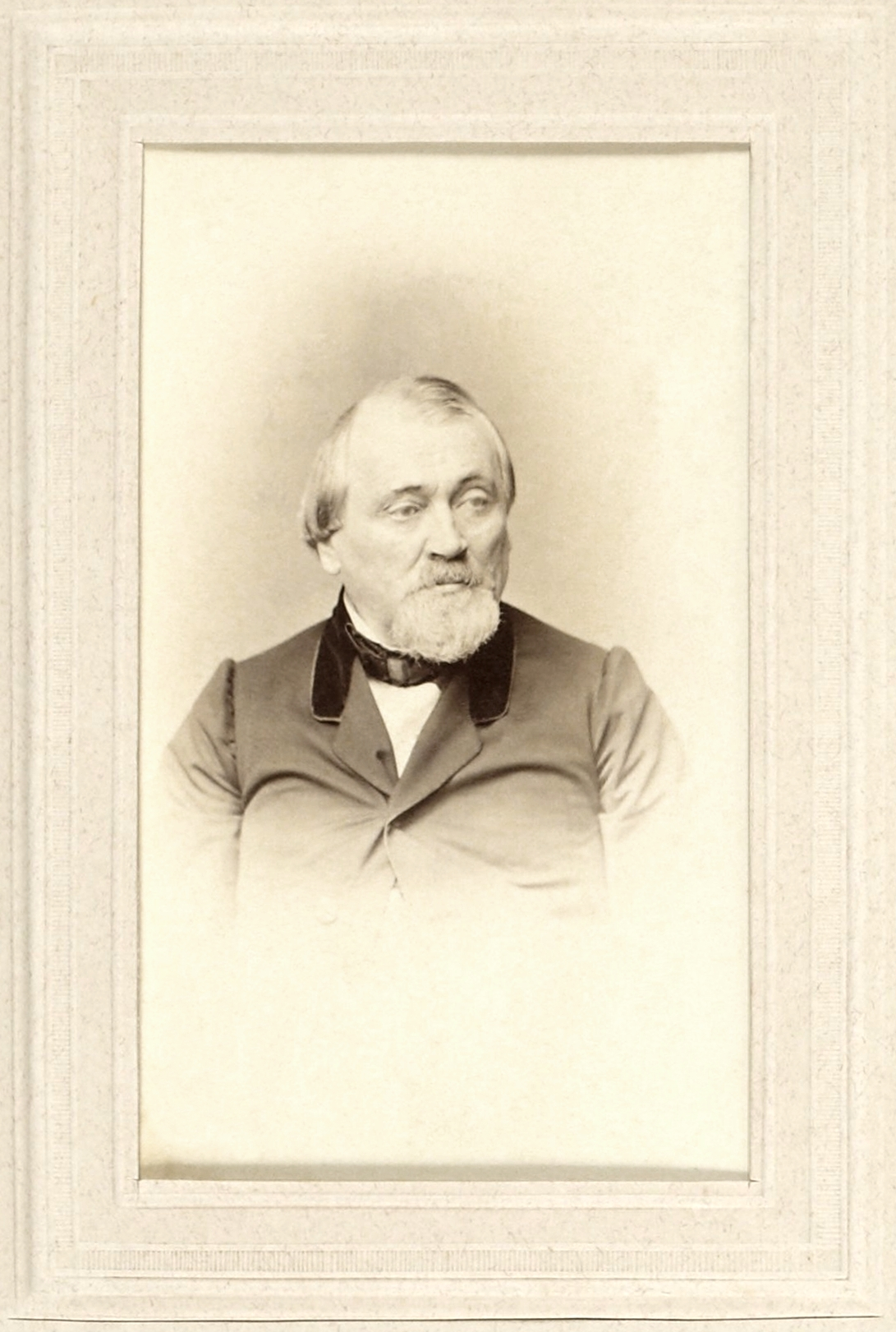 Franz Hermann Schulze-Delitzsch (1808 - 1883), German economist, jurist, and freemason. He was responsible for the organizing of the world's first credit unions.